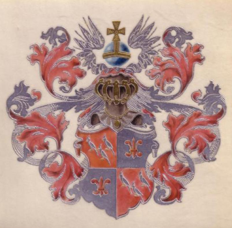 Coat of arms of the family De Roo van Alderwerelt